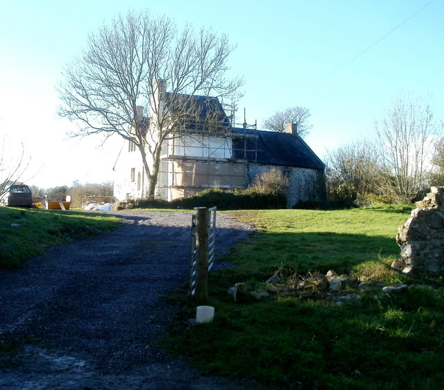 Grade I listed Castle Farmhouse, St George's